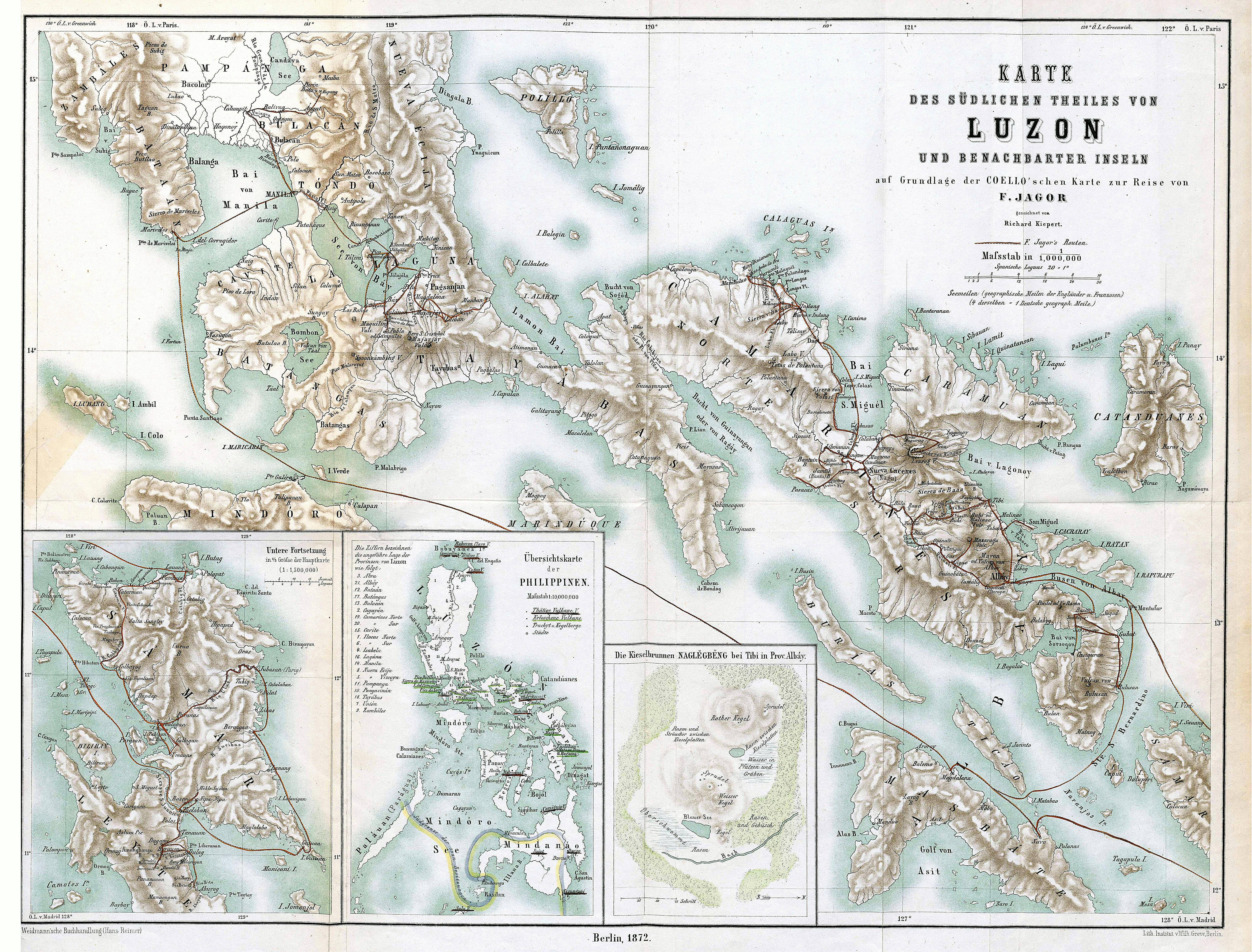 Karte des südlichen Theiles von LUZON und benachbarter Inseln.